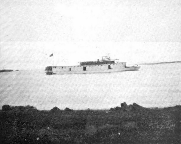 The Portus B. Weare leaving St. Michael Island, Alaska immediately after its launch. Its construction does not appear to be complete as it is missing its pilot house and tall smokestacks.